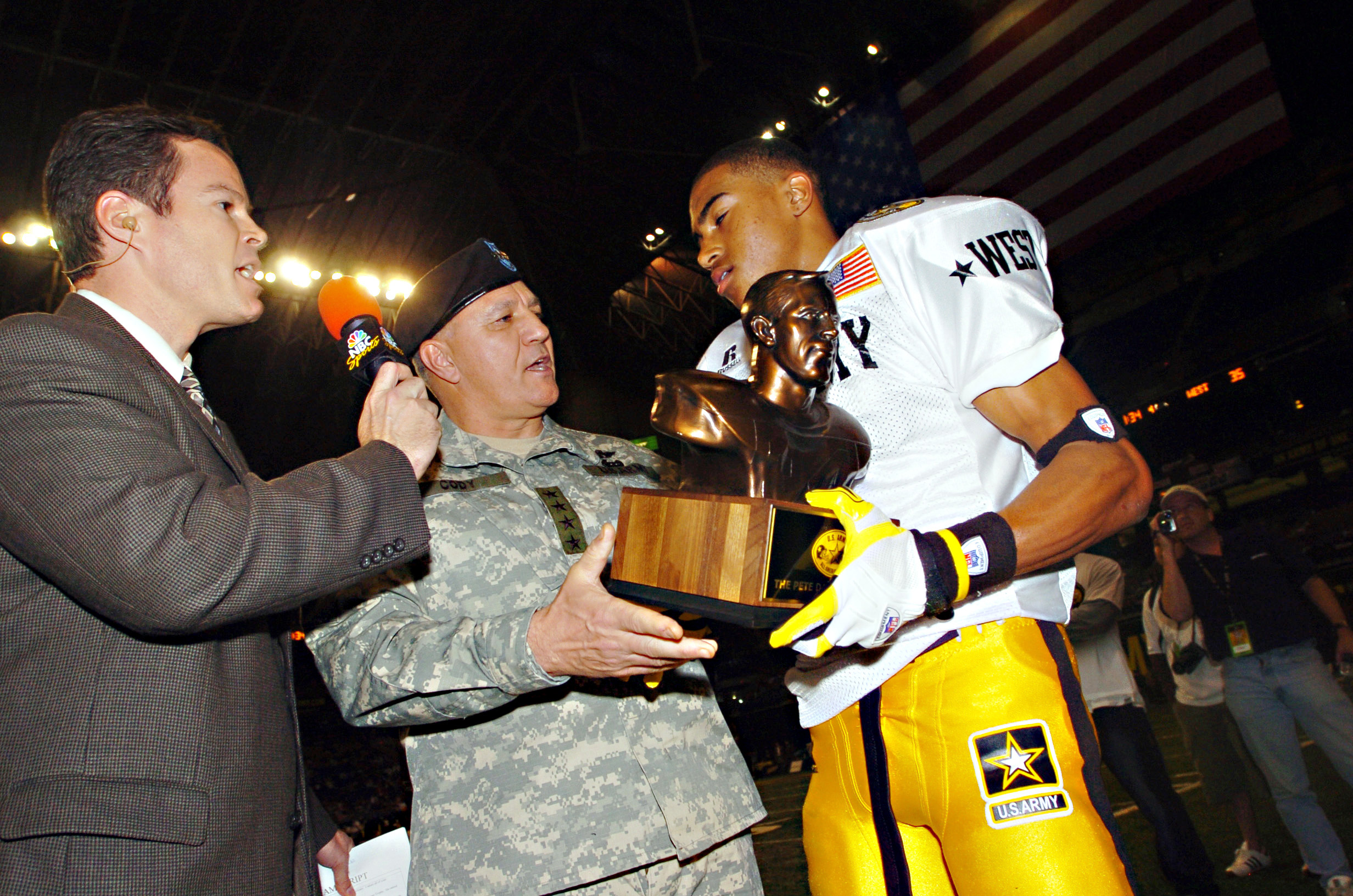 Vice Chief of Staff Gen. Richard A. Cody awards DeSean Jackson of Long Beach Poly High School, Long Beach, Calif., the Pete Dawkins MVP trophy at the All-American Bowl in San Antonio, Texas, Jan. 15.